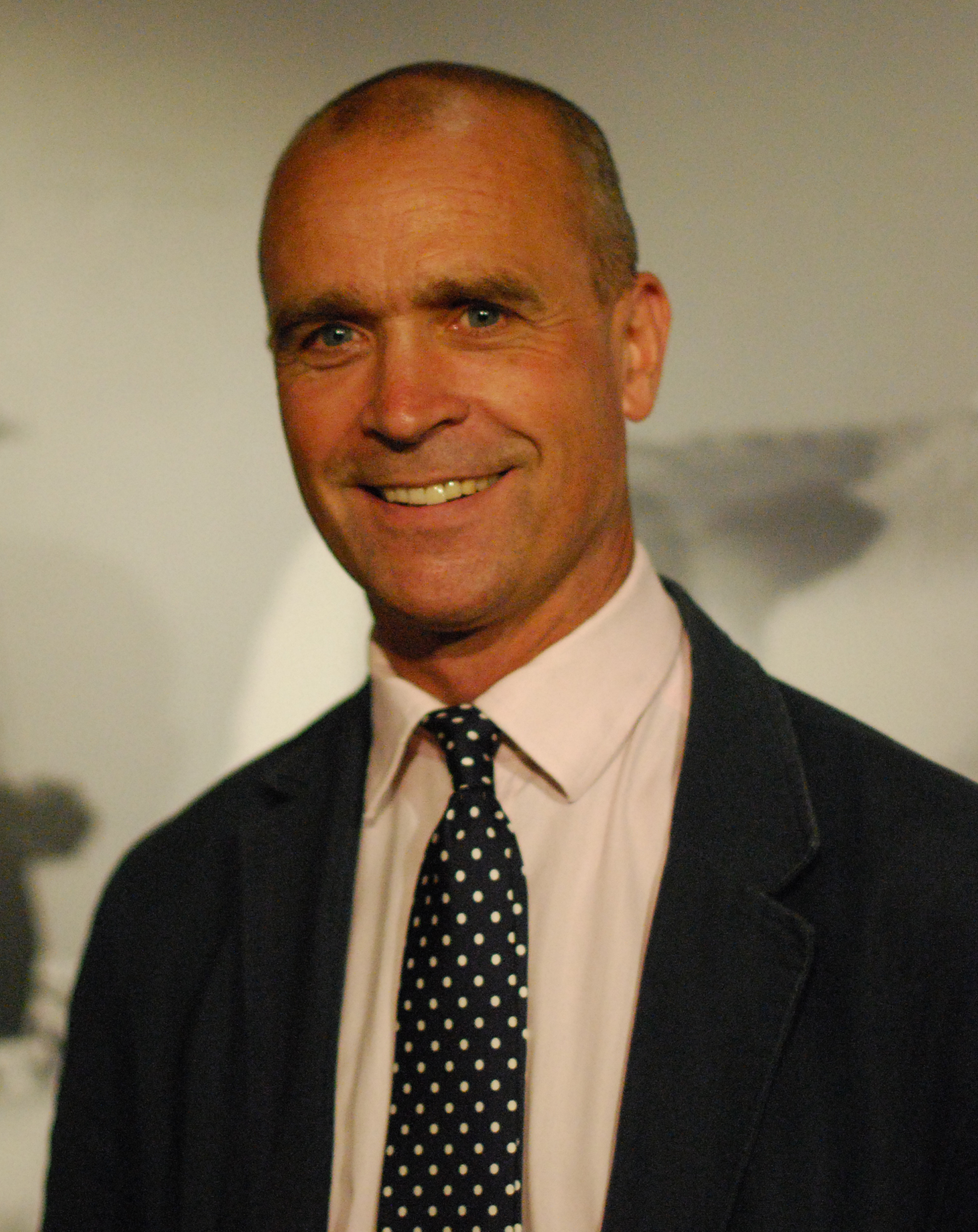 Lt Col Henry Worsley gave a presentation at the opening of the exhibition Endurance: Shackleton's Antarctic adventure, which was at Merseyside Maritime Museum until 3 January 2011. The exhibition featured about 150 incredible photographs documenting the epic story of Sir Ernest Shackleton's 1914 Endurance expedition - a real life tale of survival against the odds.